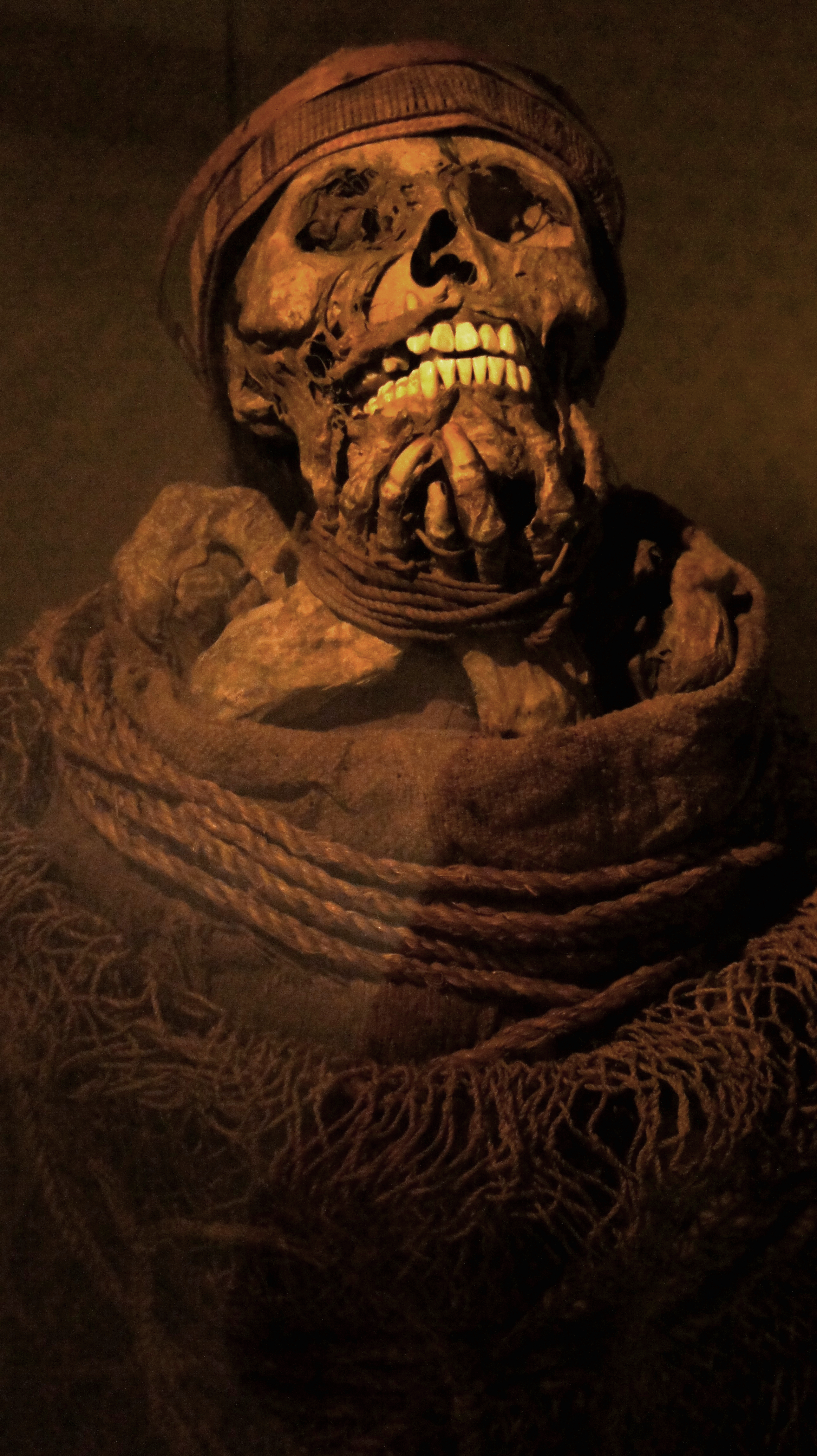 Mummy, Gold Museum, Bogotá.